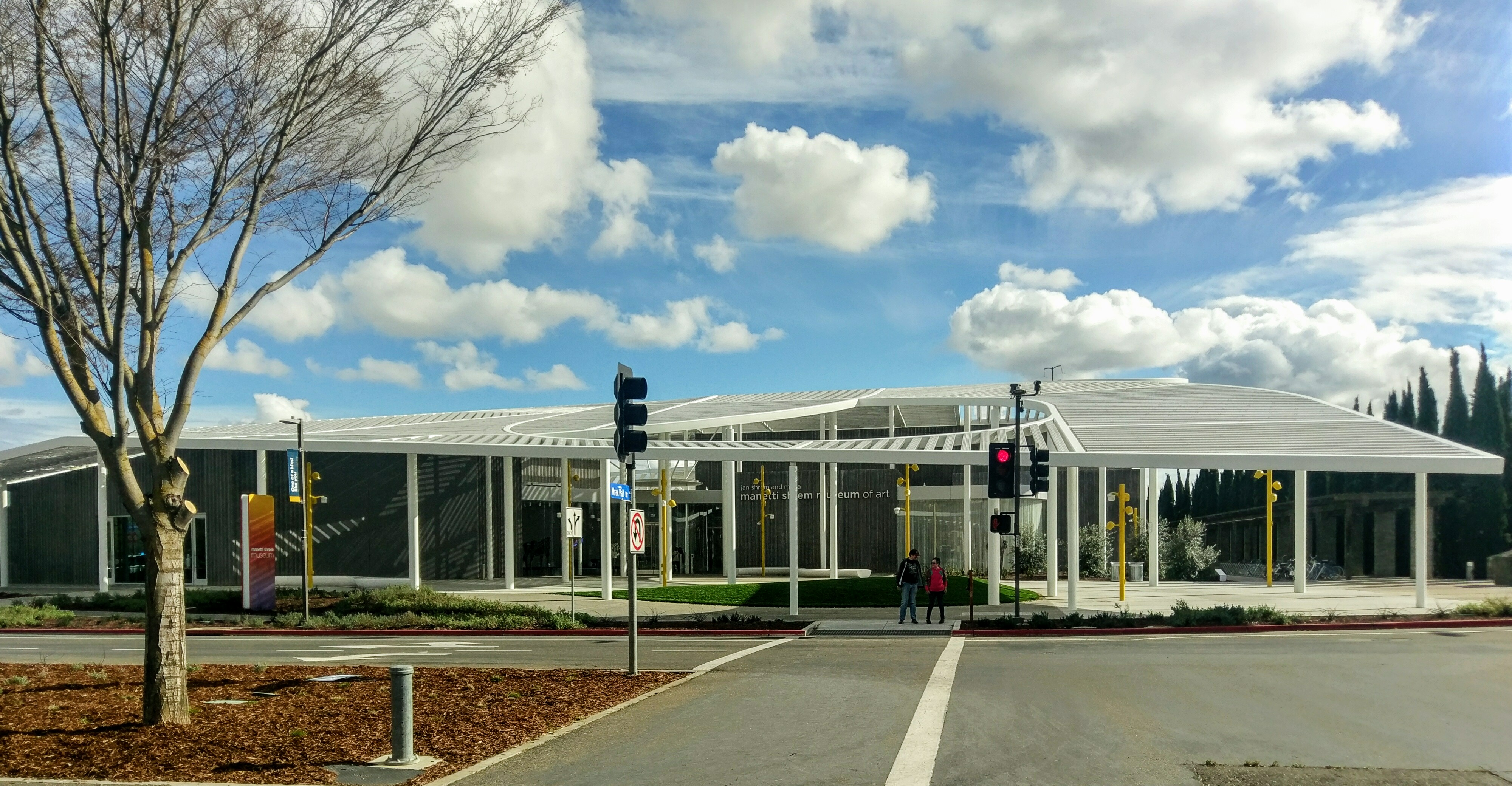 Fine arts museum at UC Davis. Photo by Jim Heaphy.